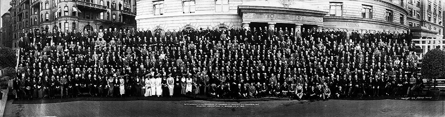 5th international congress of chambers of commerce and industrial associations – Boston, USA, 1912.